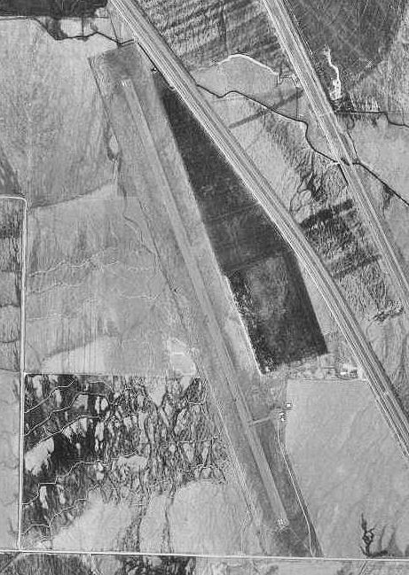 USGS orthophoto of Dell Flight Strip, Montana